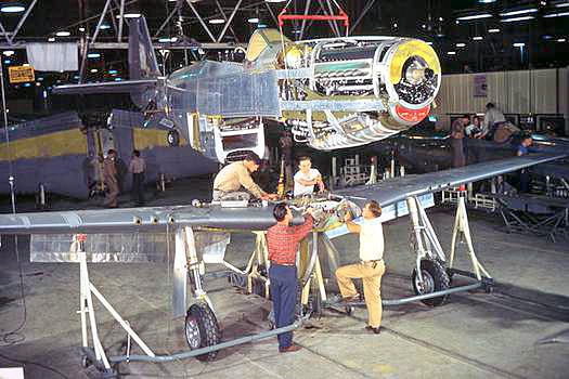 P-51D assembly line of North American Aviation. Original caption says Downey, CA — mistake ?, as P-51 production was in Inglewood, California, on most images.